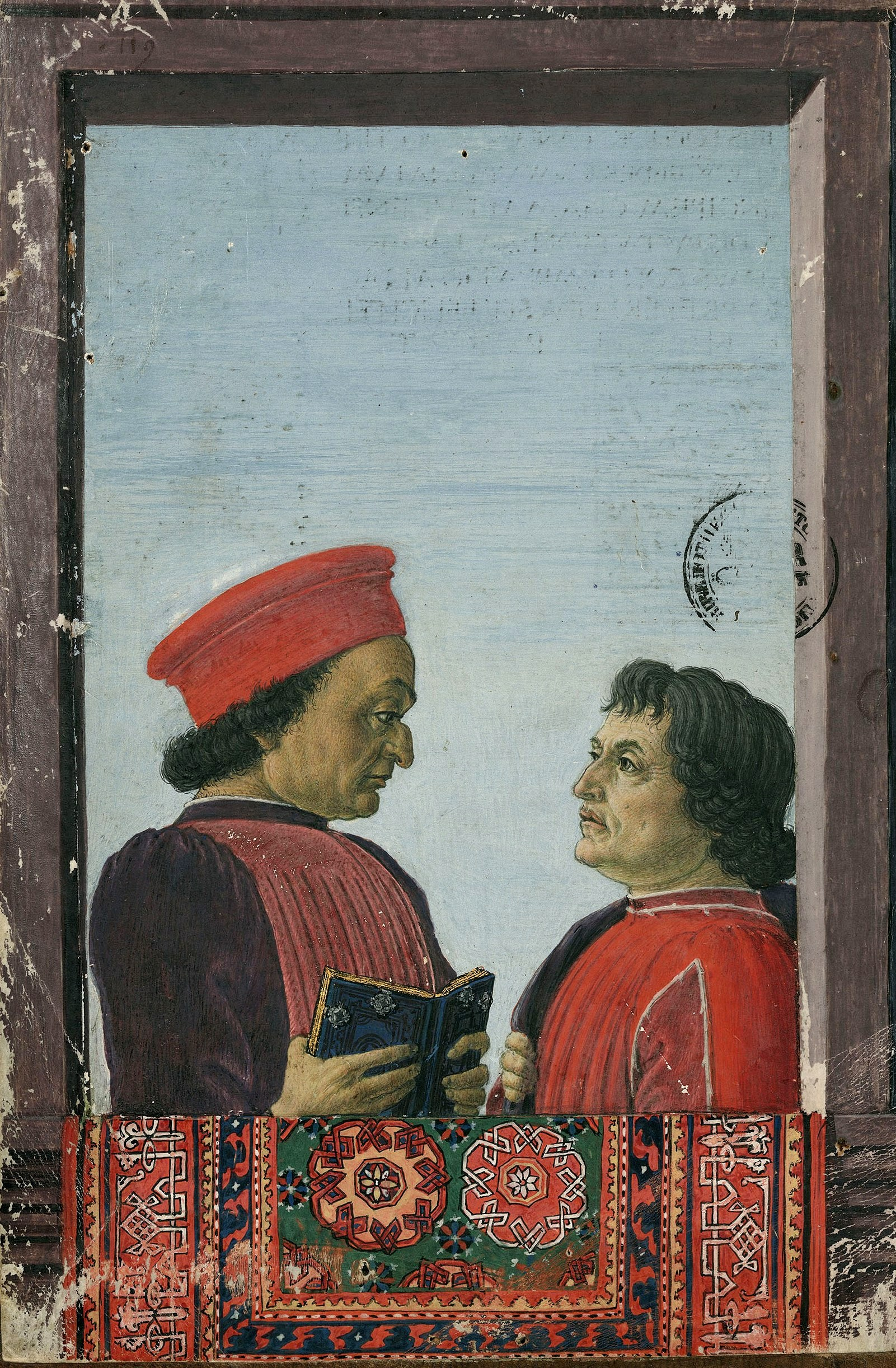 Federico_Montefeltro_and_Cristofo_Landino_15th_century